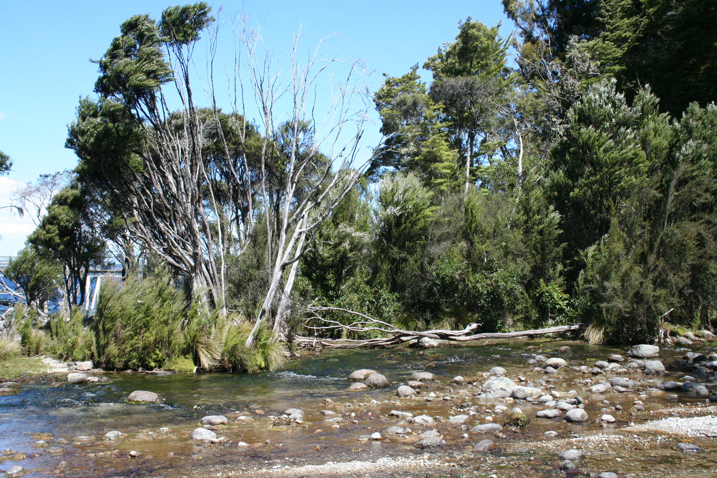 Lake Te Anau, Te-Anau-Caves coast, South Island, New Zealand